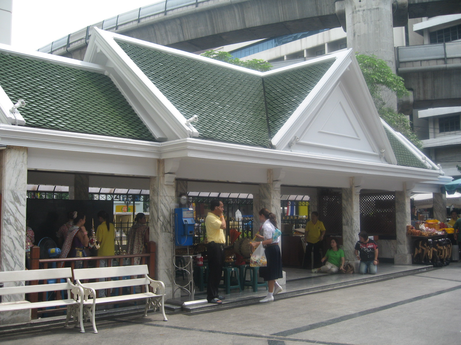 Erawan Shrine, Bangkok.